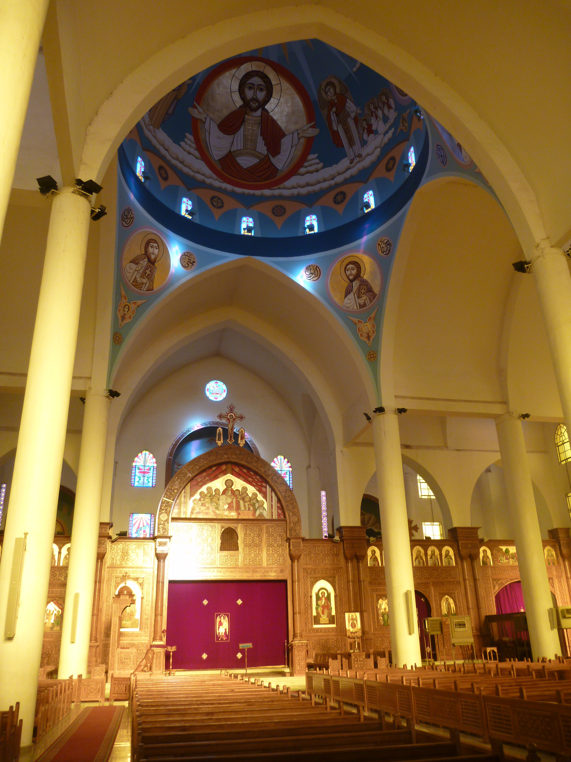 Interior of Archangel Michael's Coptic Orthodox Cathedral, Aswan (Egypt), consecrated in 2006